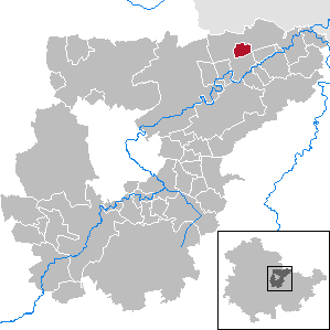 Rannstedt in Thuringia - District Weimarer Land